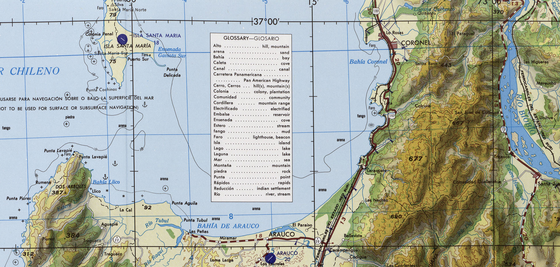 Lota, Bahía de Arauco, Coronel, Laraquete, Carampangue